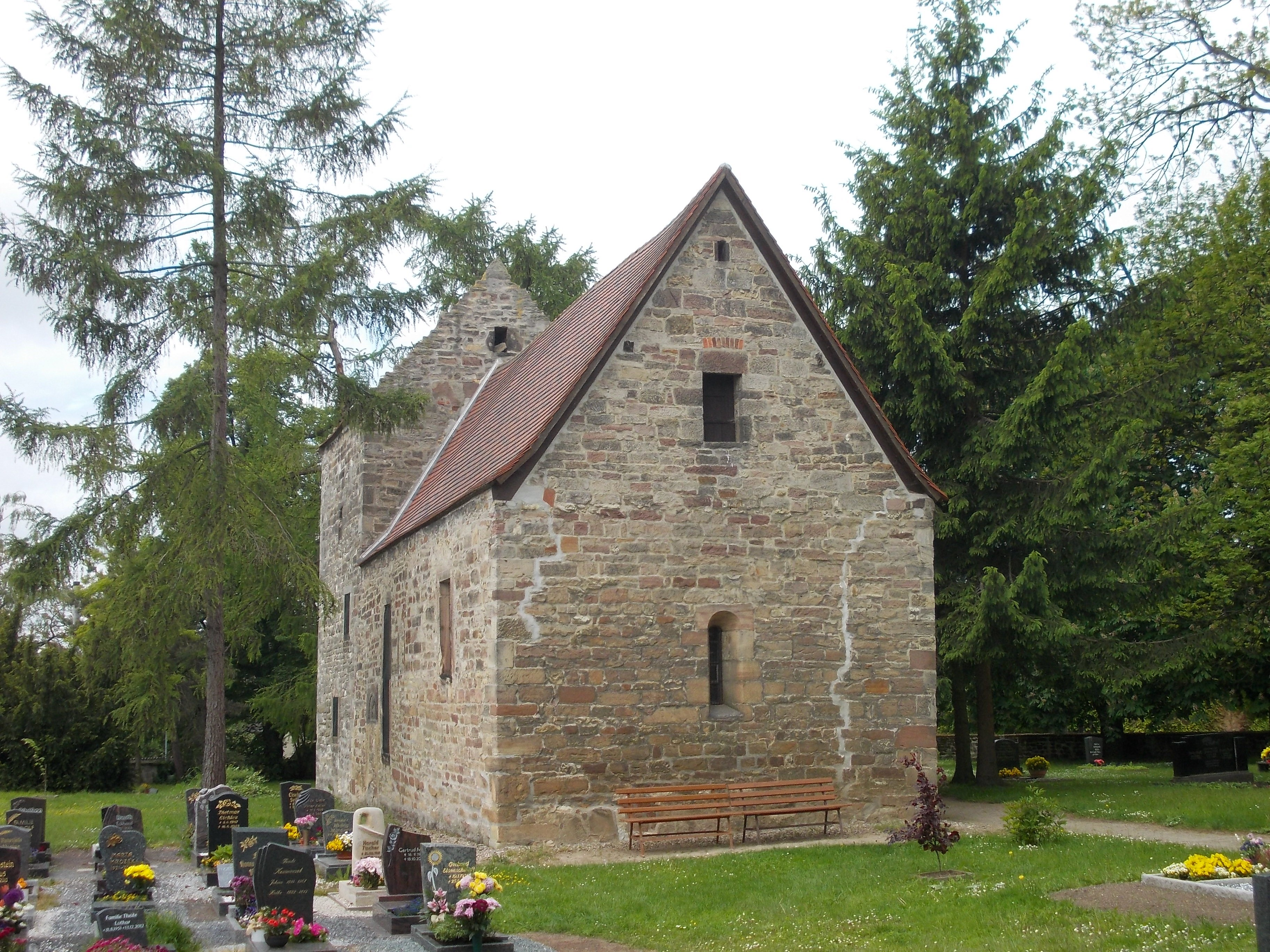 St. Peter's Church on Gatterstädt (Querfurt, district: Saalekreis, Saxony-Anhalt)